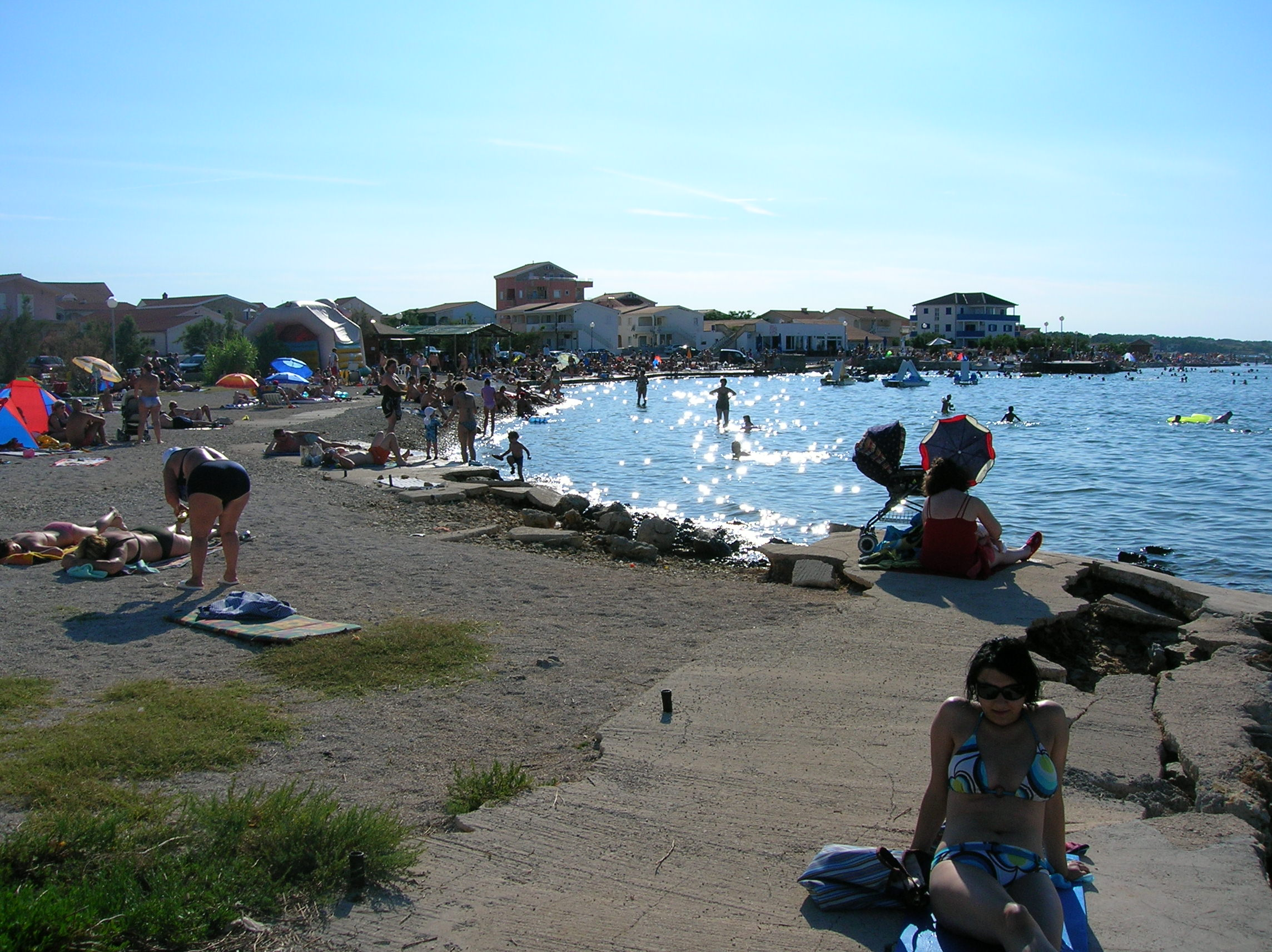 Lučica beach on the island of Vir.